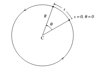 Duas posições numa trajetória de um movimento circular.